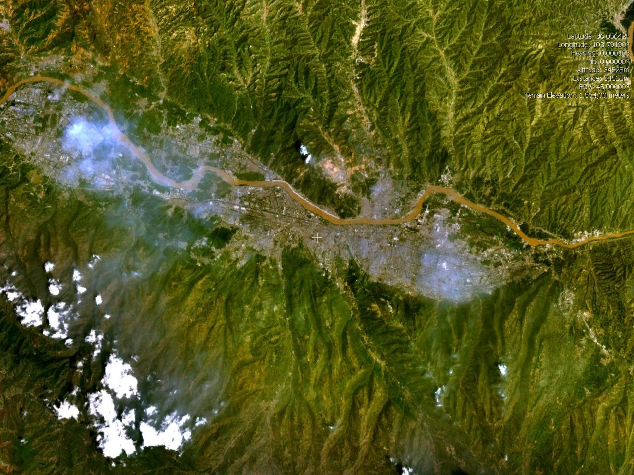 Lanzhou, China. Satellite view.